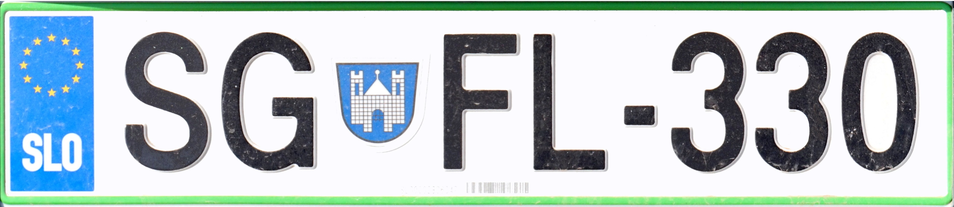 Slovenian license plate with a sticker of Slovenj Gradec administrative unit